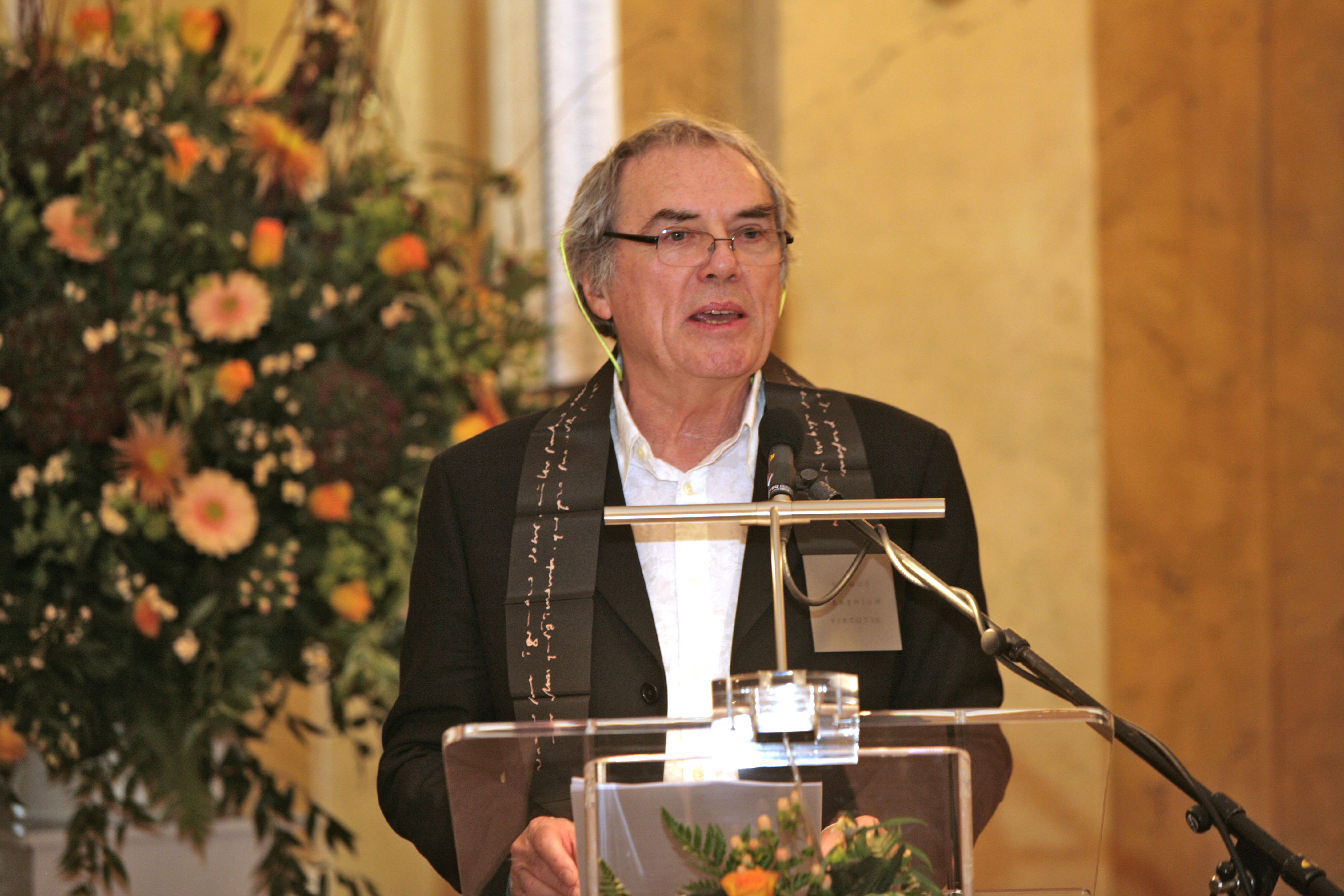 Pierre Bernard (French artist), acceptance speech Erasmus Prize 2006 (the Netherlands). Photograph: Courtesy of the Praemium Erasmianum Foundation.